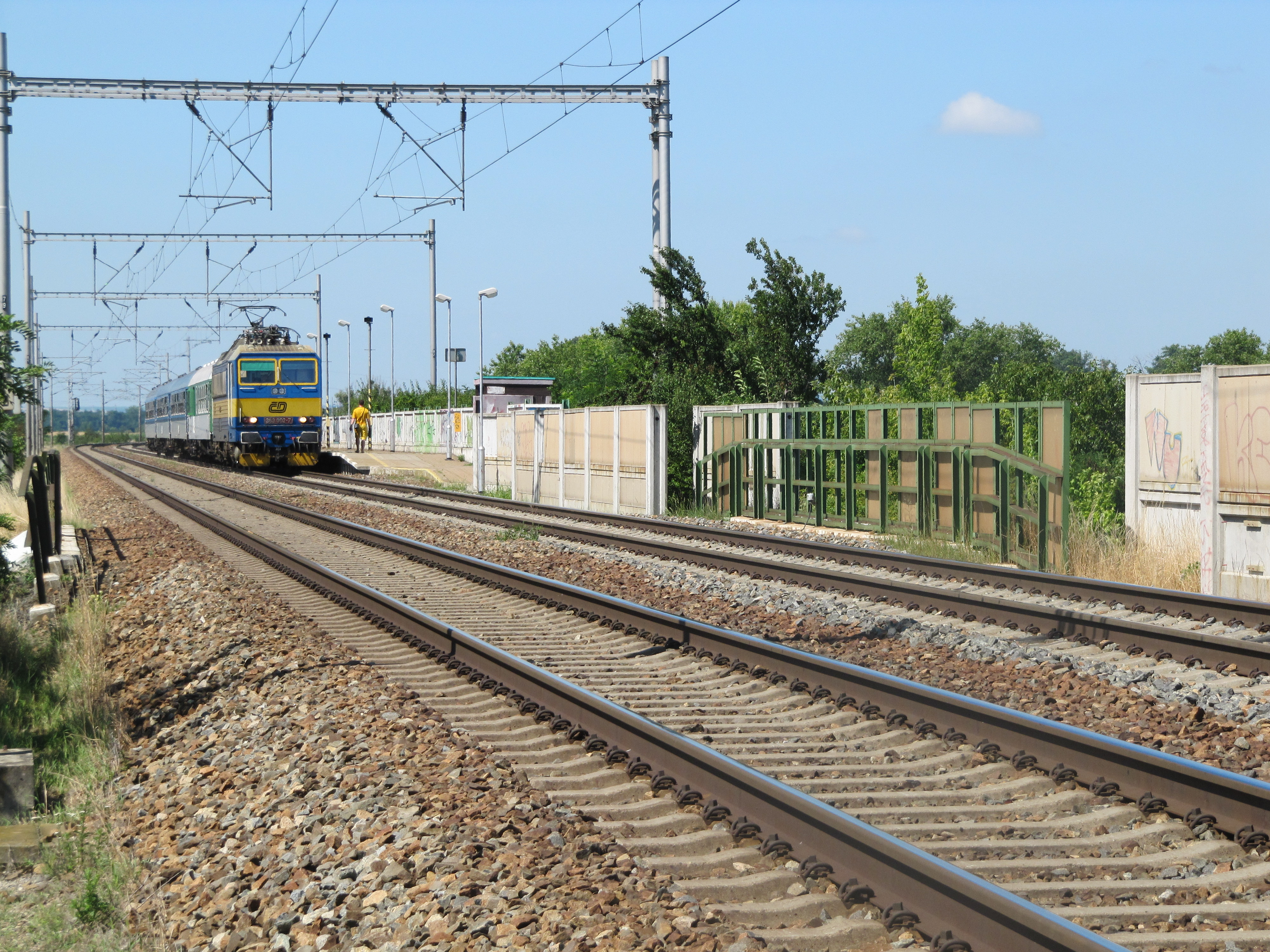 Hrušky in Břeclav District, Czech Republic. Train station. This photograph was taken within the scope of the third year of the 'Czech Municipalities Photographs' grant.